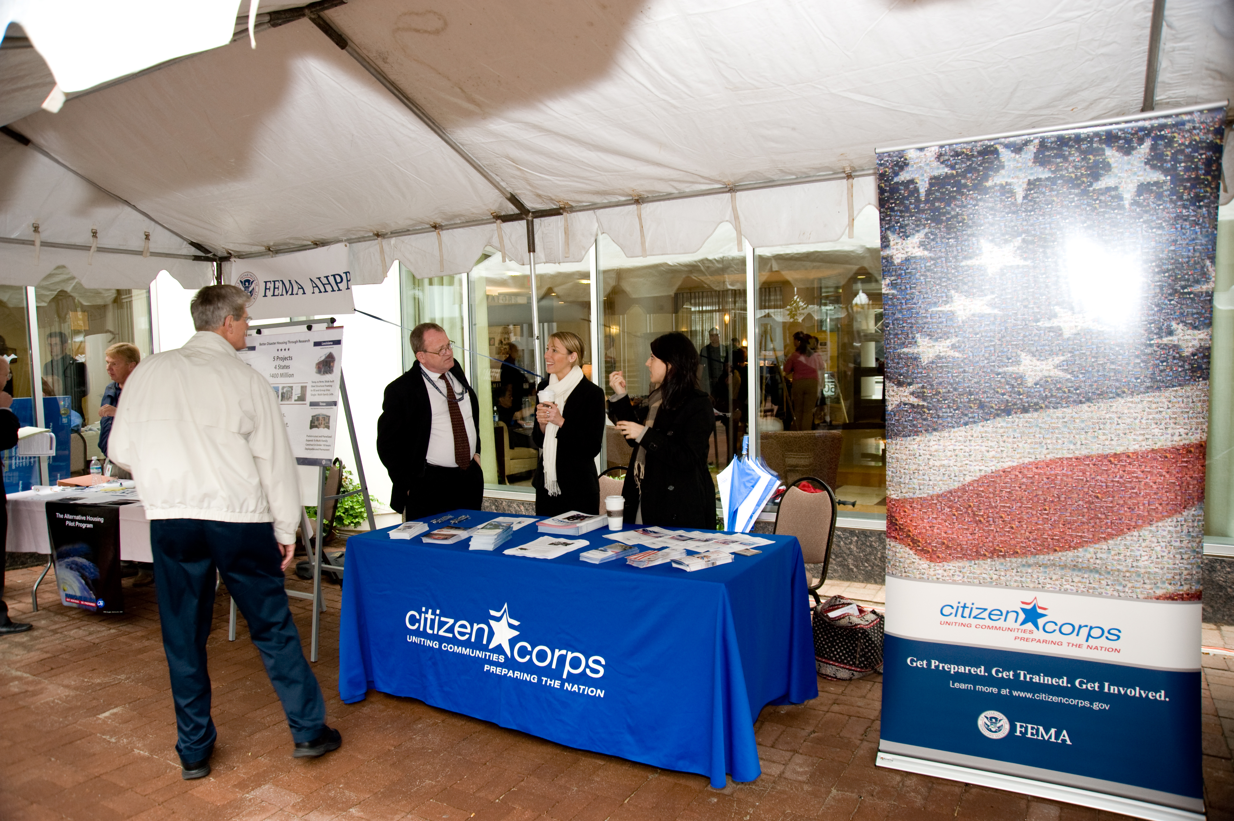 Washington, DC, May 22, 2008 -- The Citizen Corps booth at FEMA's Hurricane Awareness Day at FEMA Headquarters. FEMA hosted the event to help citizens become aware of the coming Hurricane Season. FEMA/Bill Koplitz